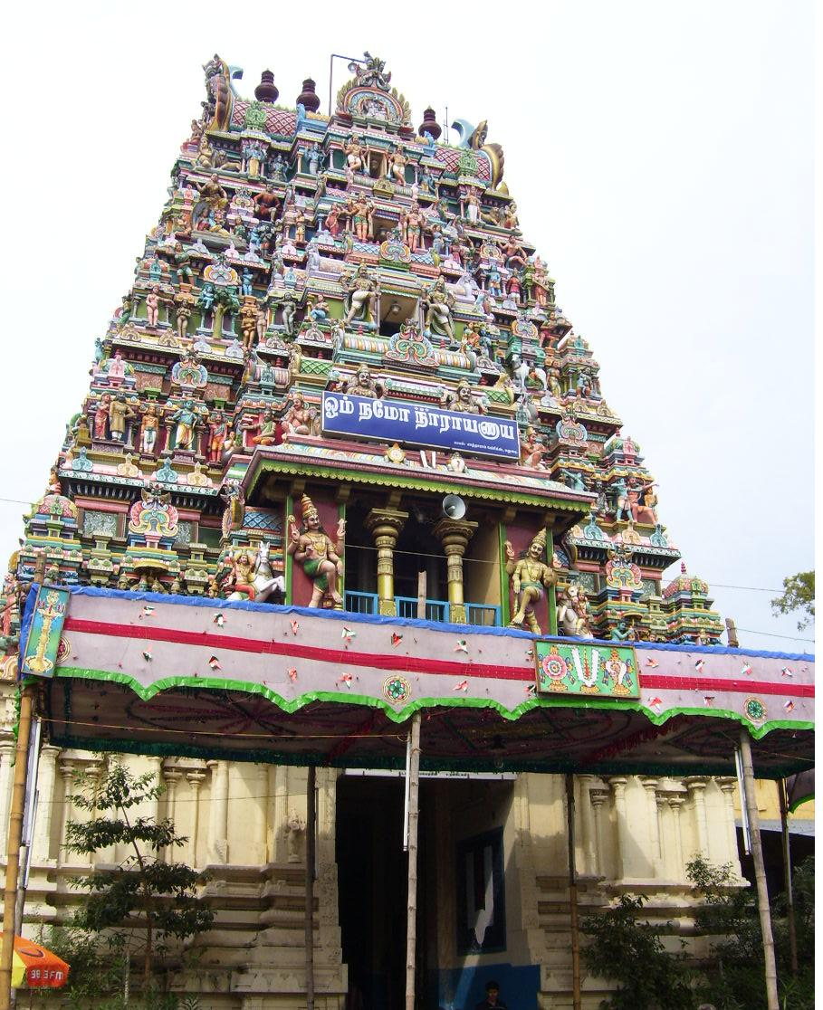 koodal azhagar temple front view